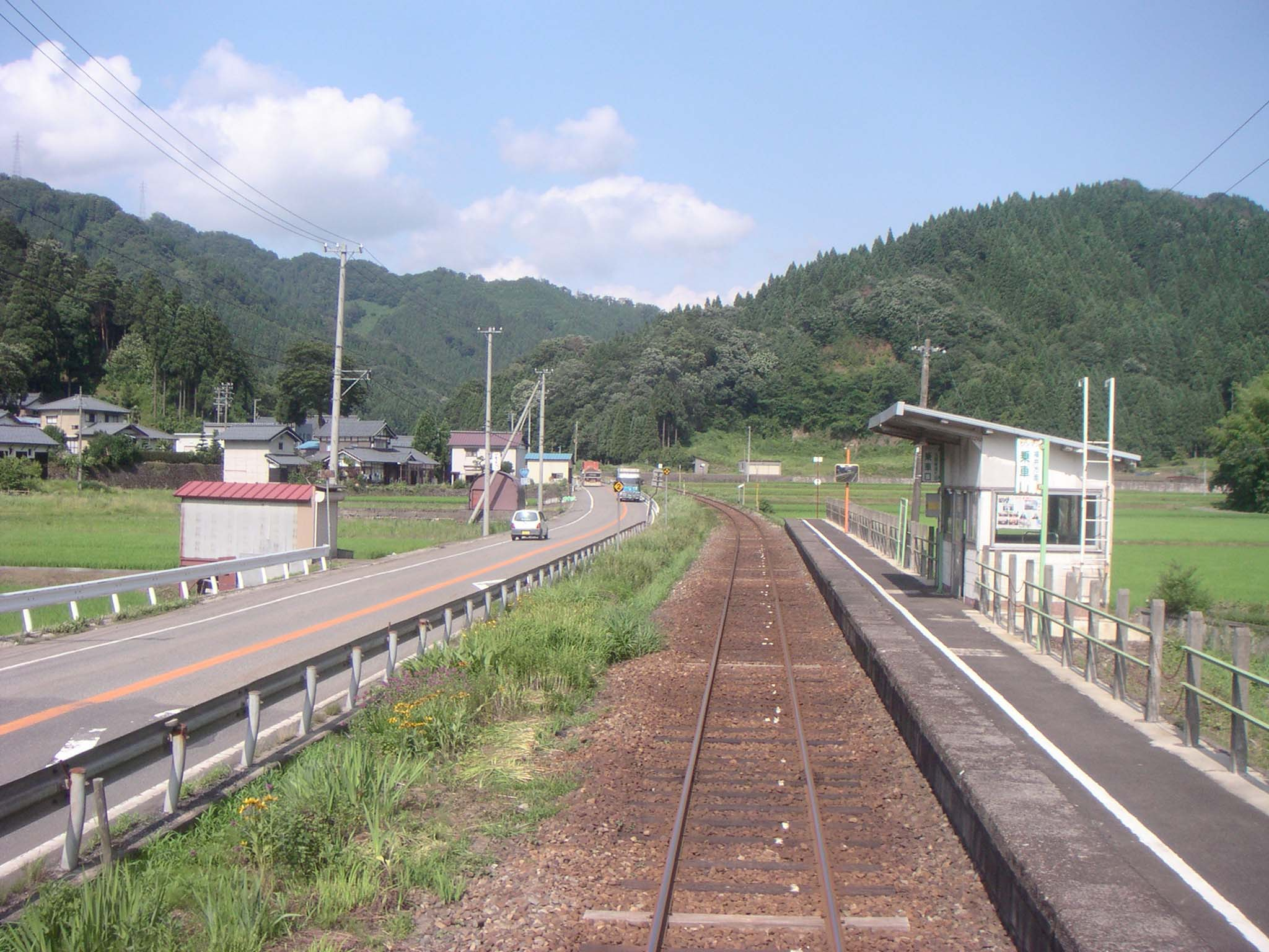 West Japan Railway Company Etsumi-Hoku Line, Hakariishi Station